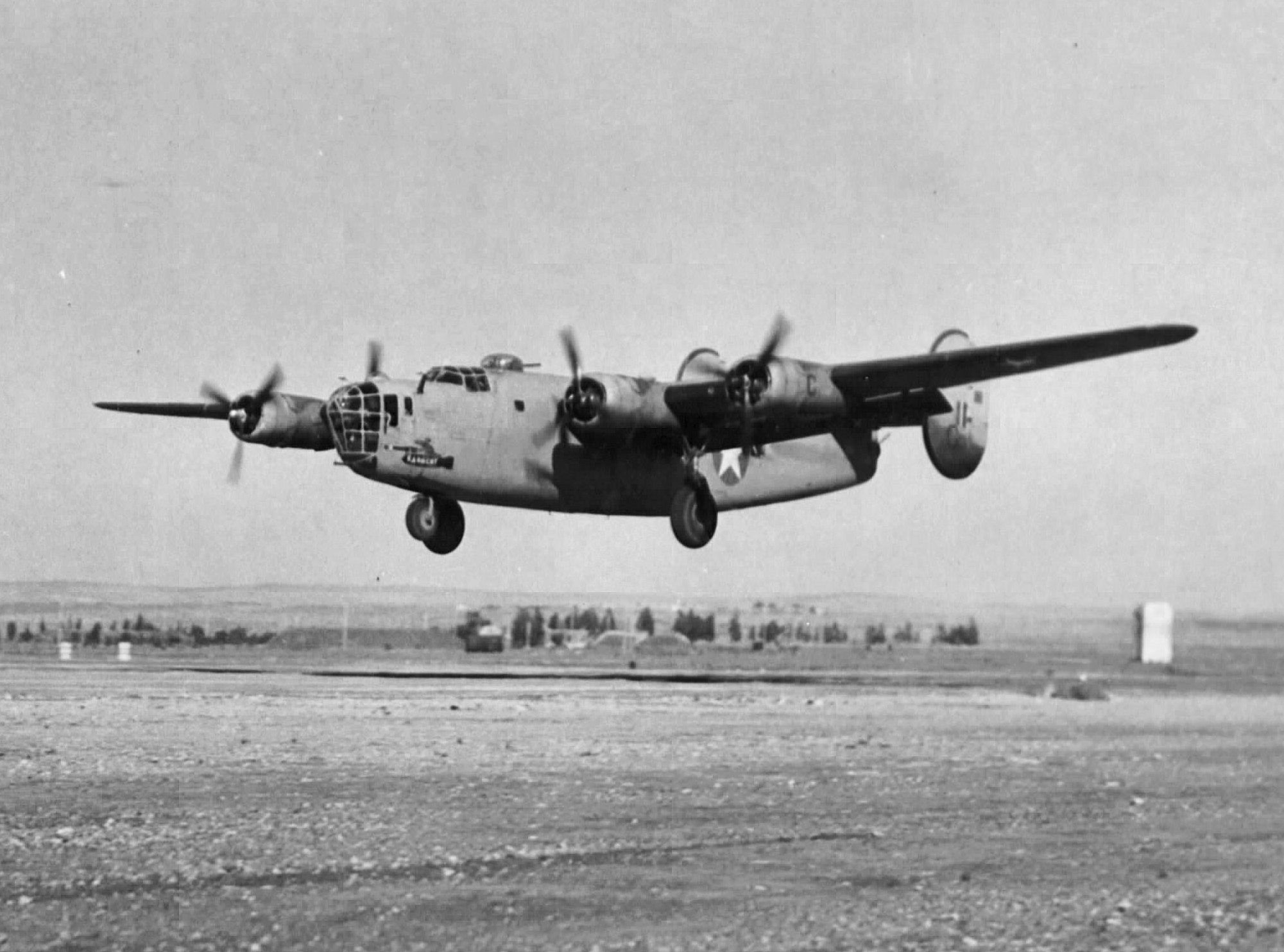 "Raunchy" B-24D-CO Liberator s/n 41-11819 344th Bombardment Squadron, 98th Bombardment Group Lost on the August 1,1943 low-level mission to Ploesti,Romania. She was hit by AAA over the target and exploded at an altitude of 150 feet and crashing into a field. 8 KIA, 2 POW MACR 169 Photo taken at Tobruk or Benina Airfield, Libya